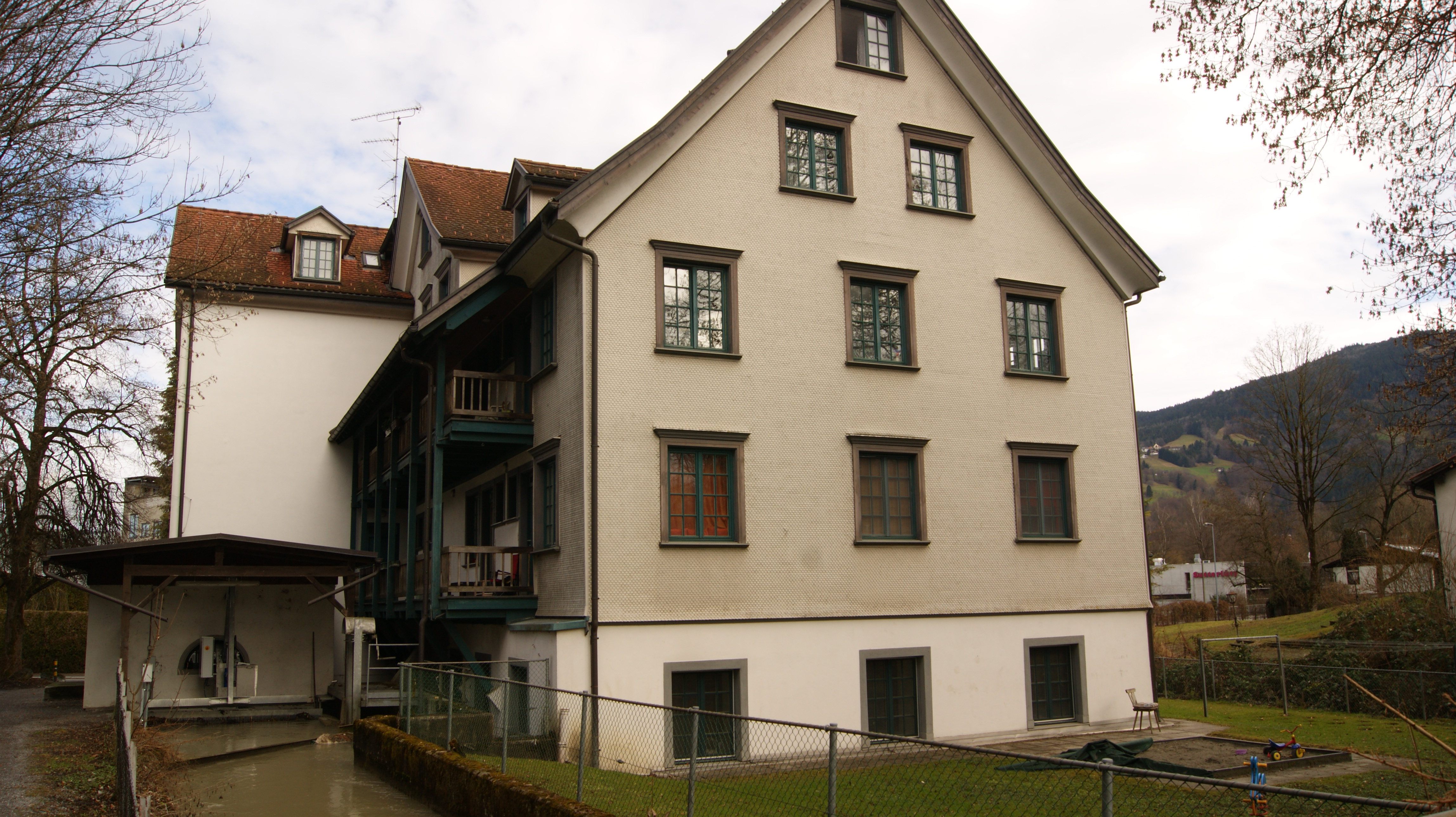 Power plant "Rohrbach", Rohrbach No. 19th (423 masl), in Dornbirn, Vorarlberg, Austria. House seen from the south-west.